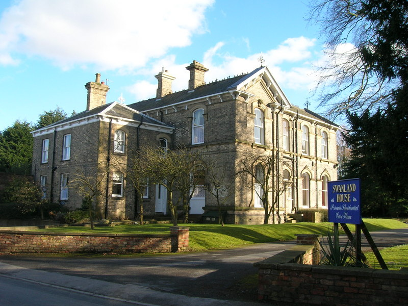 Swanland House, Swanland, East Riding of Yorkshire, England.